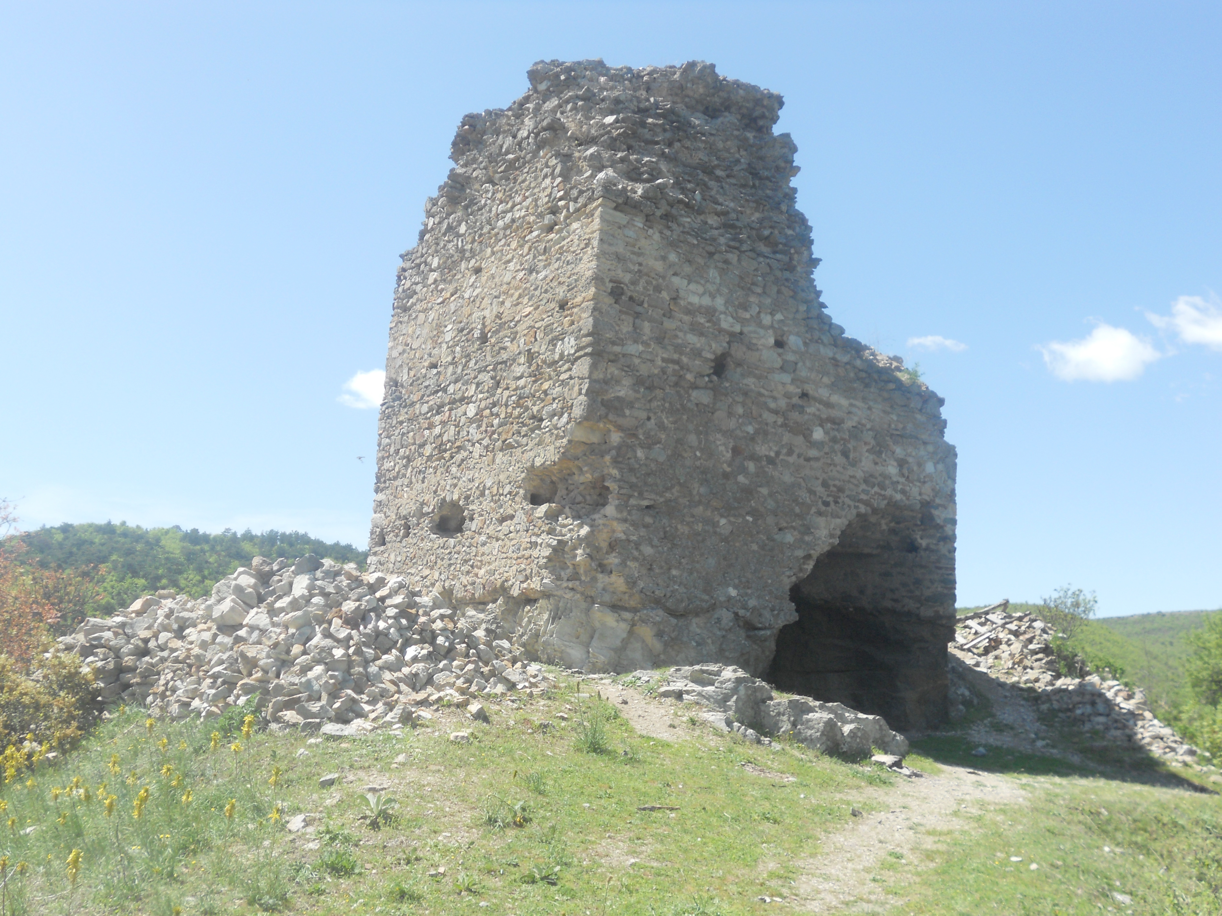 Carevi Kuli